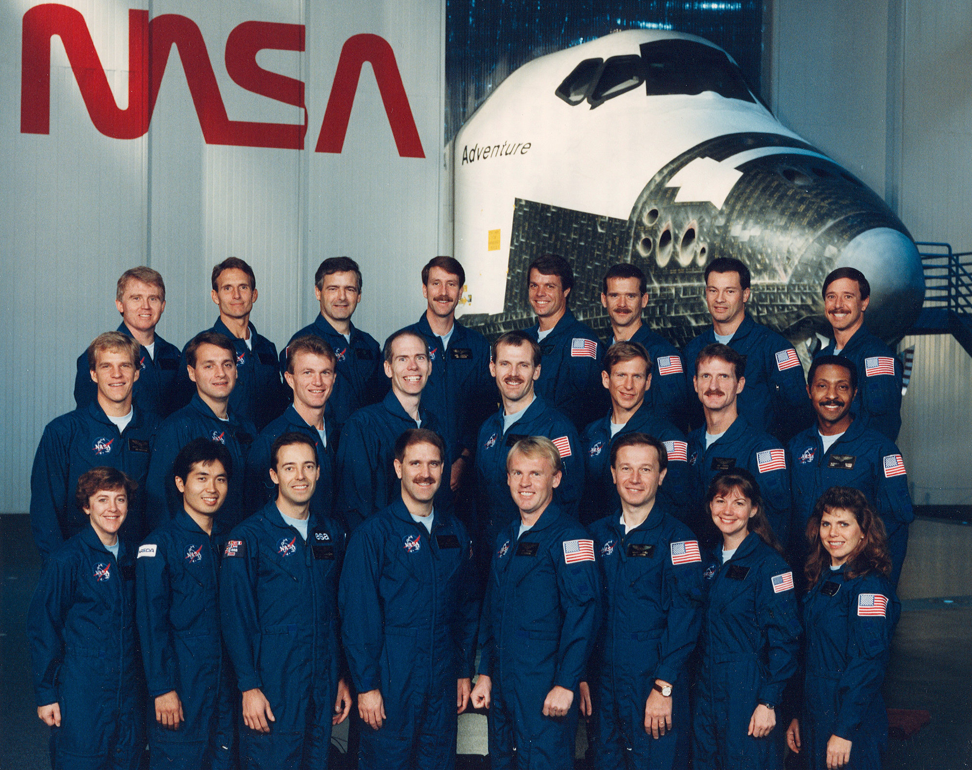 Photo of NASA astronaut group 14, announced 1992.